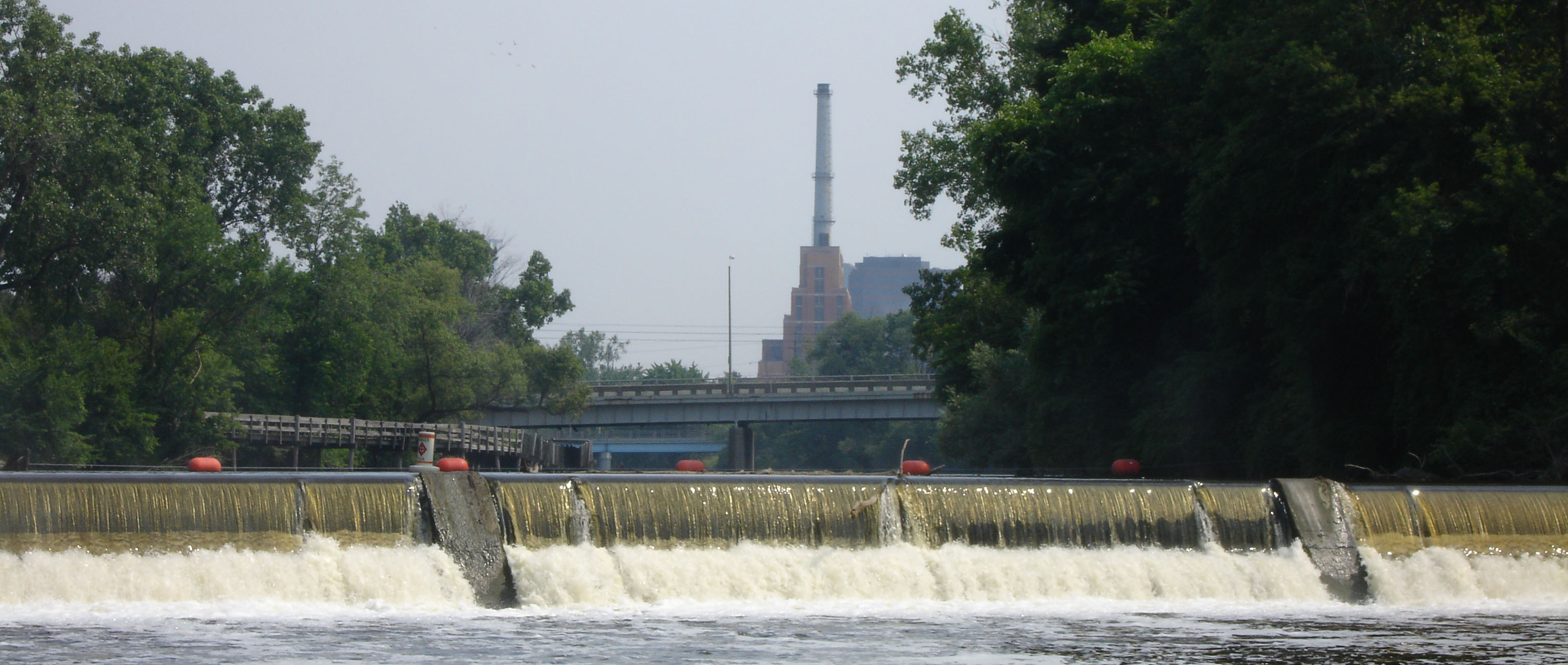 North Lansing dam in the Grand River; Lansing, MI. Board of Water and Light is in the background.